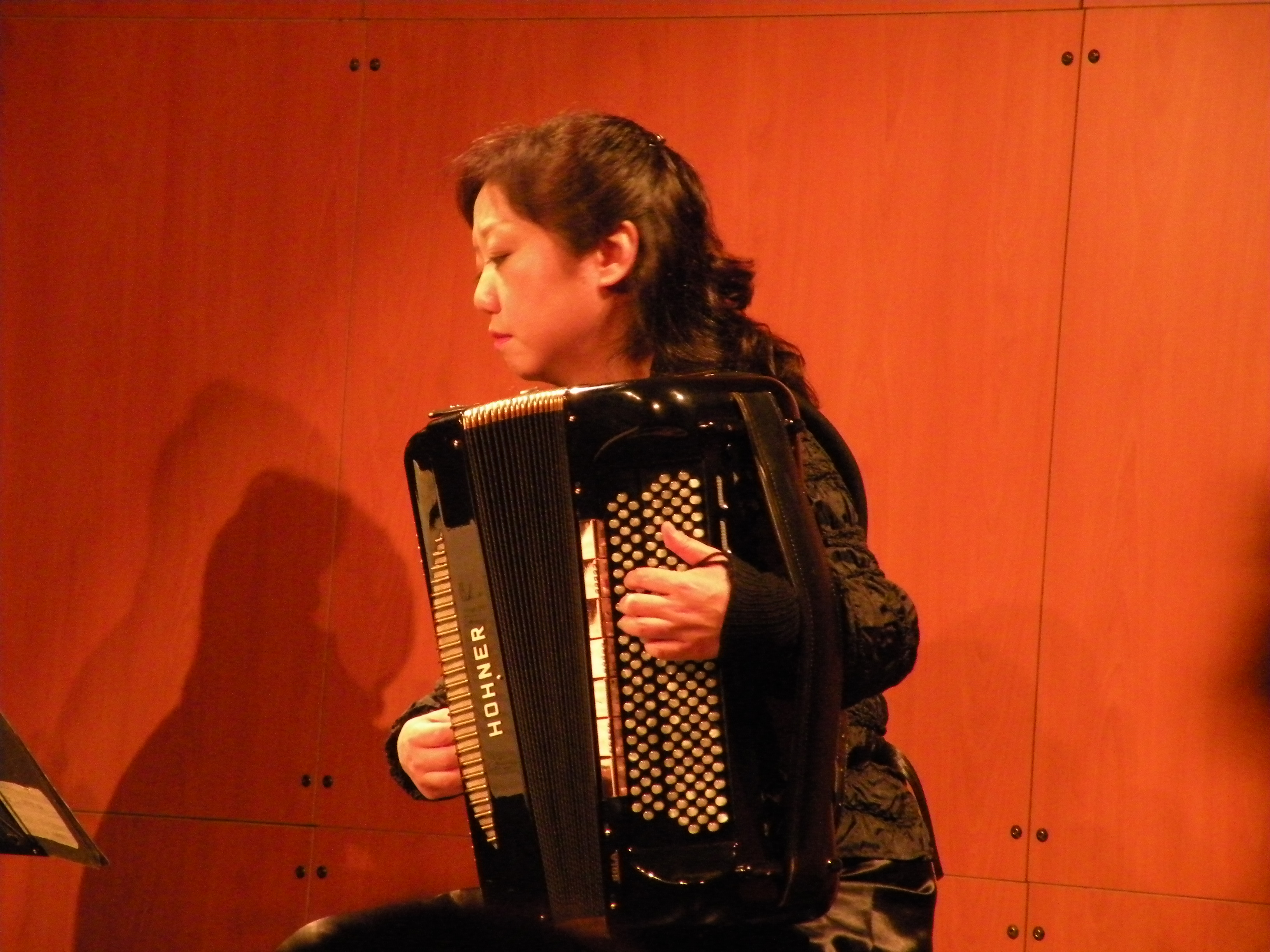 Mie Miki, japanese accordionist, on 1st February 2009, during La Folle Journée in Nantes.